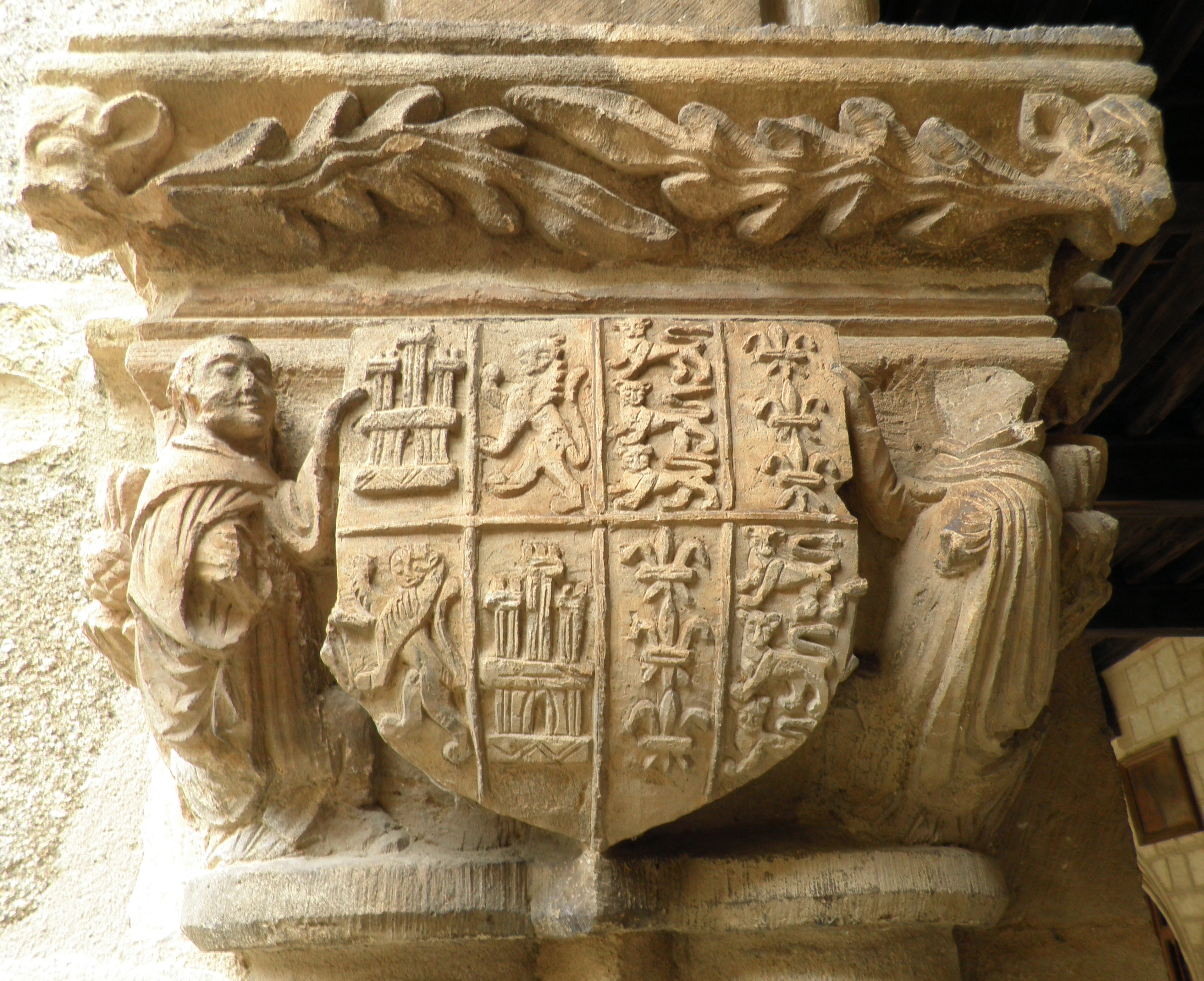 5th capitel of East corridor of cloister of Santa María la Real de Nieva, Segovia province, Spain. Two monks with the coat of arms of the king Henry III of Castille (left) and his wife Catherine of Lancaster (right).